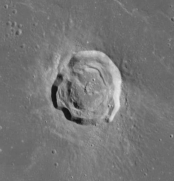 Crater Harding (detail of LRO - WAC global moon mosaic; Mercator projection)